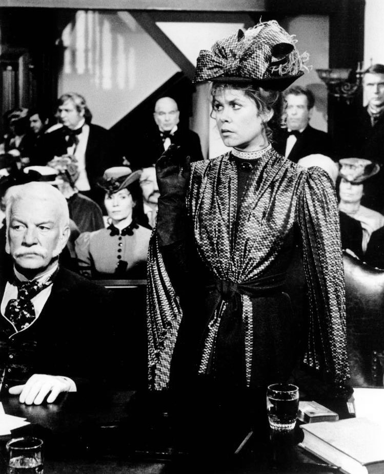 Photo from the made for television film The Legend of Lizzie Borden. Lizzie Borden (Elizabeth Montgomery) is shown in court with her lawyer (Don Porter) to hear the verdict of the court in her murder trial.